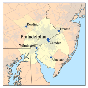 This is a map of the Delaware Valley Metro area I made using U.S. Census Bureau data. The Metropolitan Combined Statistical Area is shown in yellow. The light gray shading indicates urbanized areas. Mercer County, NJ (Trenton) was moved from the Philadelphia metro area to the New York metro area in 2000. Berks County, PA (Reading) was added to the Philadelphia metro area in 2005.